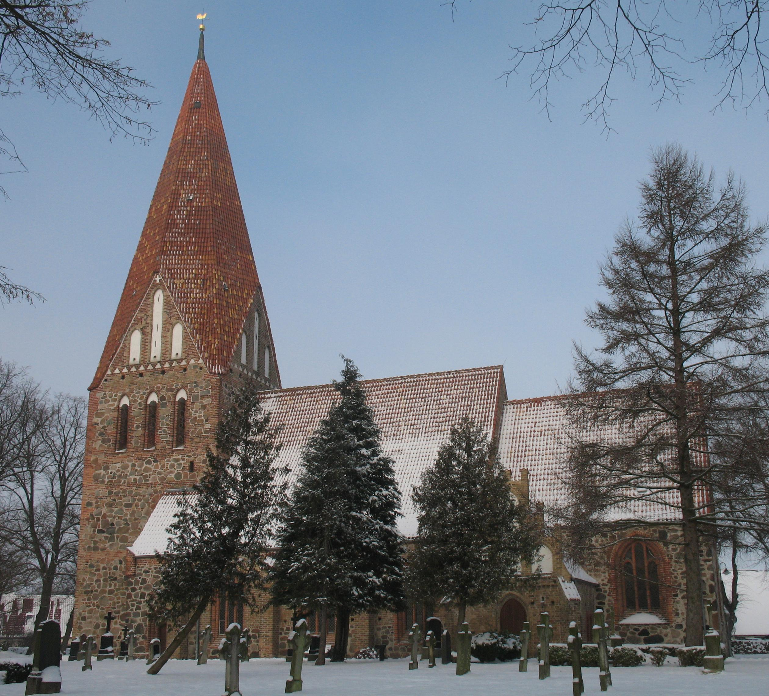 Church in Elmenhorst/Lichtenhagen in Mecklenburg-Western Pomerania, Germany